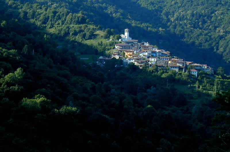 Town of Topolovo/Topolo, municipality of Grmek/Grimacco, Friuli-Venezia Giulia, Italy